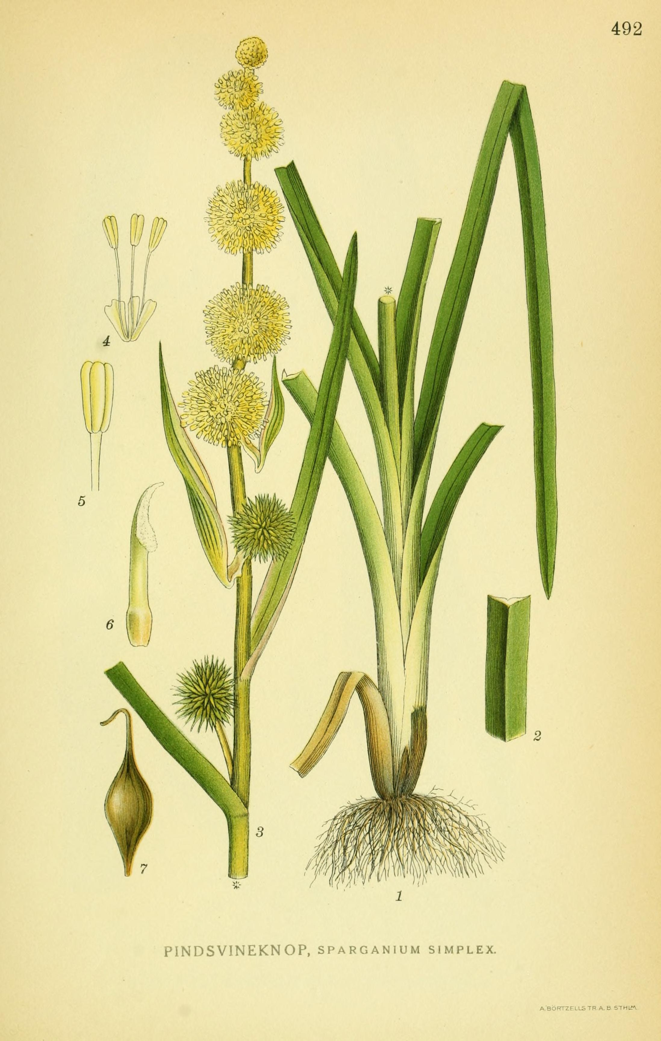 Title: Billeder af nordens flora Year: 1917 (1910s) Authors: Mentz, August, 1867-1944; Ostenfeld, C. H. (Carl Hansen), 1873-1931 Subjects: Plants; Plants; Plants Publisher: København, G. E. C. Gad's forlag Text Appearing Before Image: /1^?k. 492 Text Appearing After Image: PINDSVINEKNOP, sparganium simplex. v,Bbf?TZELLSTR A.B ST«L^^